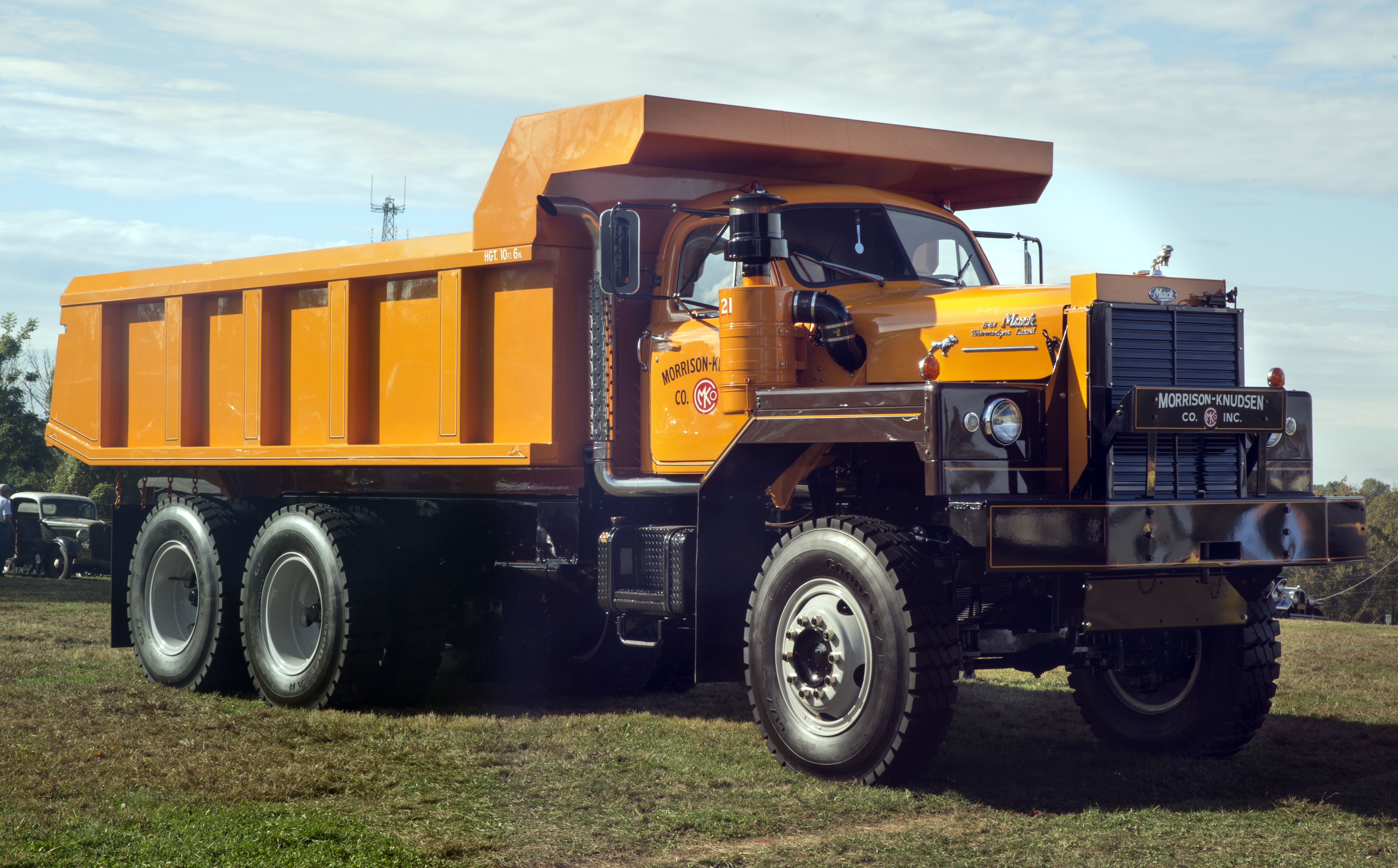 A Mack B81 dump truck in the show area at Hershey 2019, Morrison-Knudsen livery. A very imposing truck.